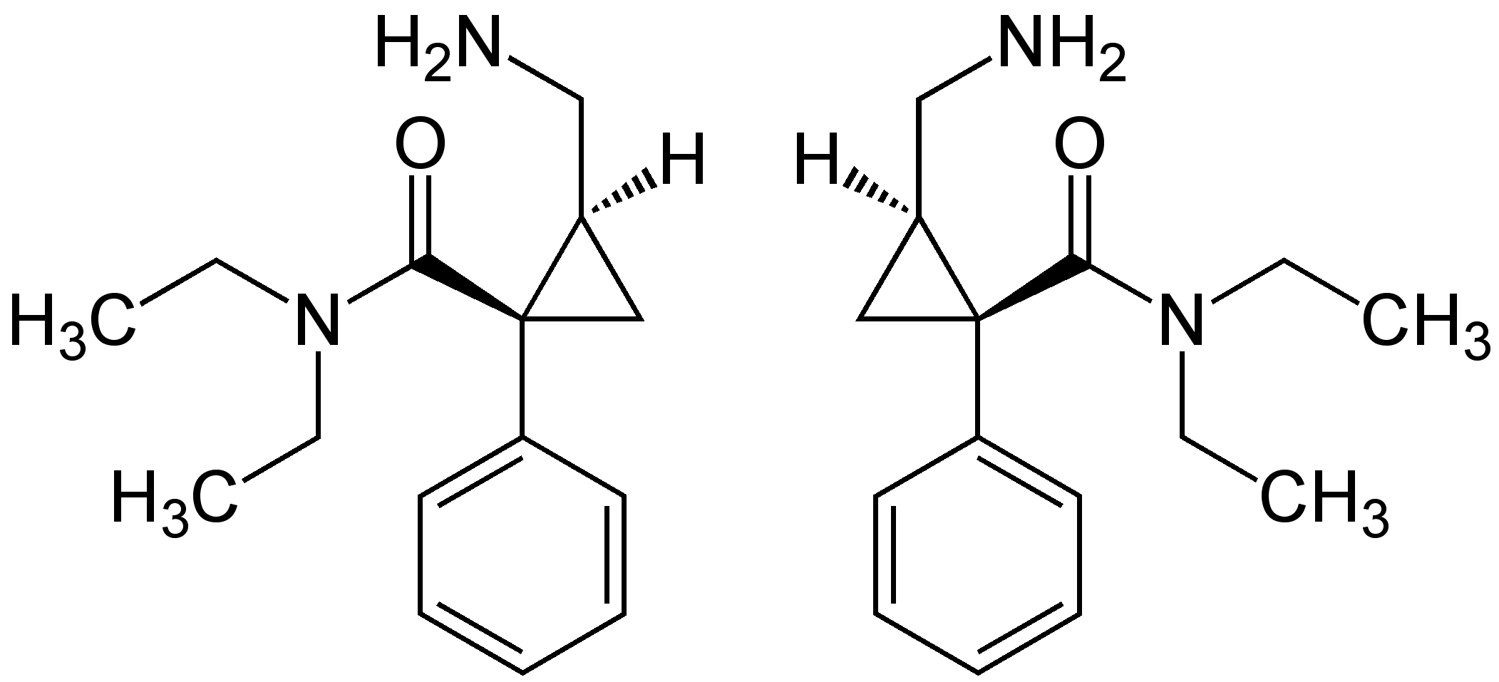 Milnacipran_Enantiomers_Structural_Formulae